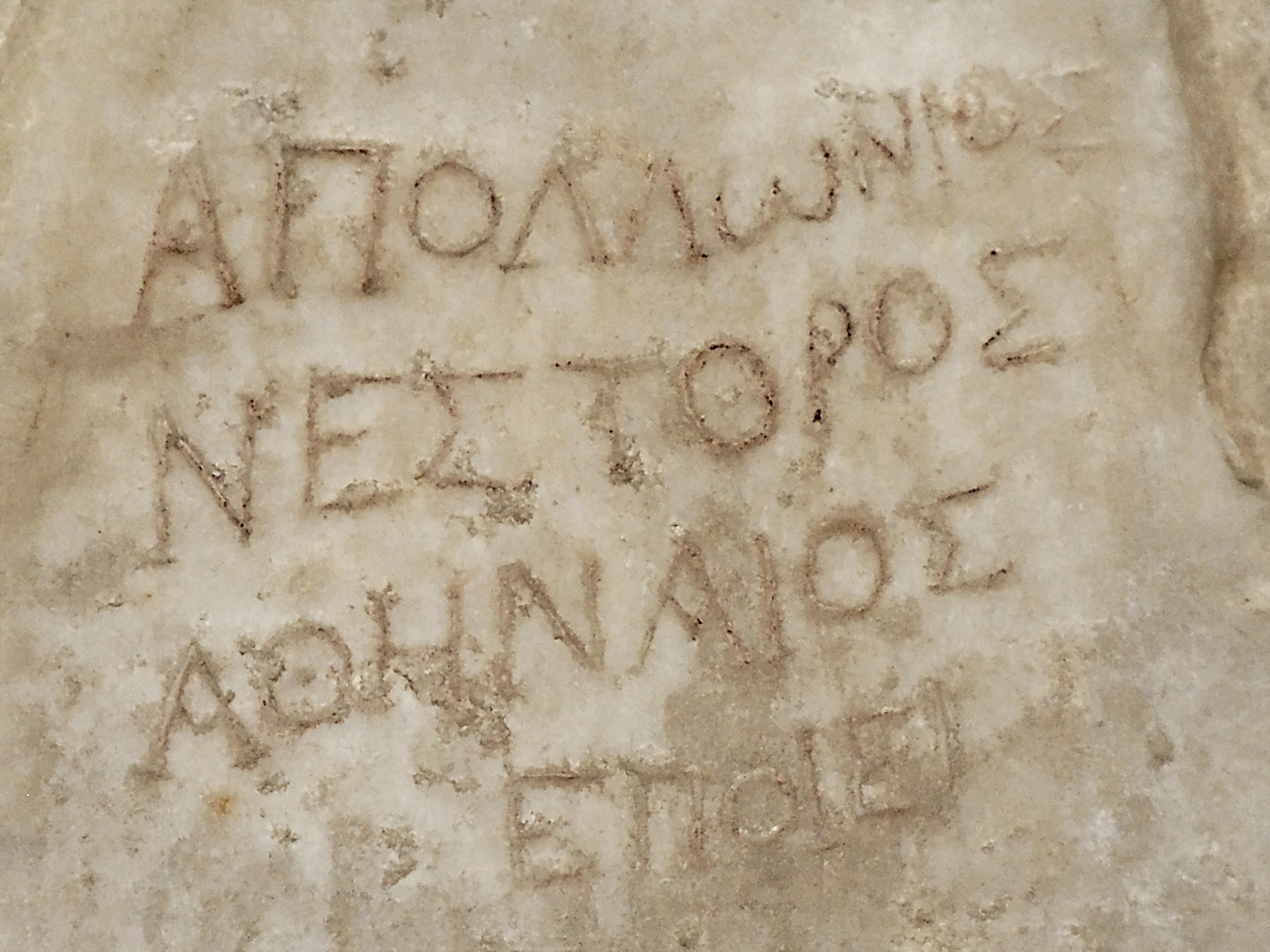 Signature of Apollonios on the so-called Belevedere Torso: "Apollonios son of Nestor, the Athenian, made it". Marble, Neo-Attic art of the 1st century BC.